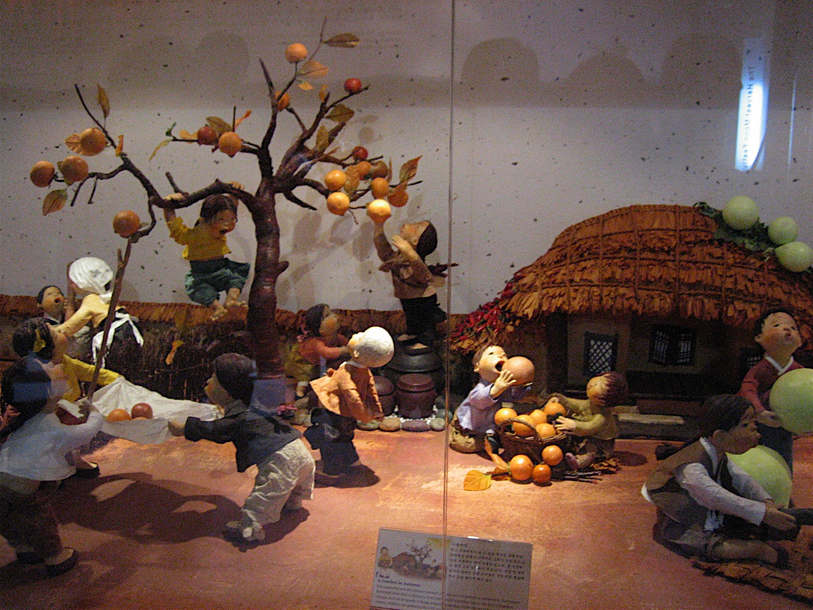 A scene of Gyeongju, Gyeongsangbuk-do, South Korea on 2007-10-04